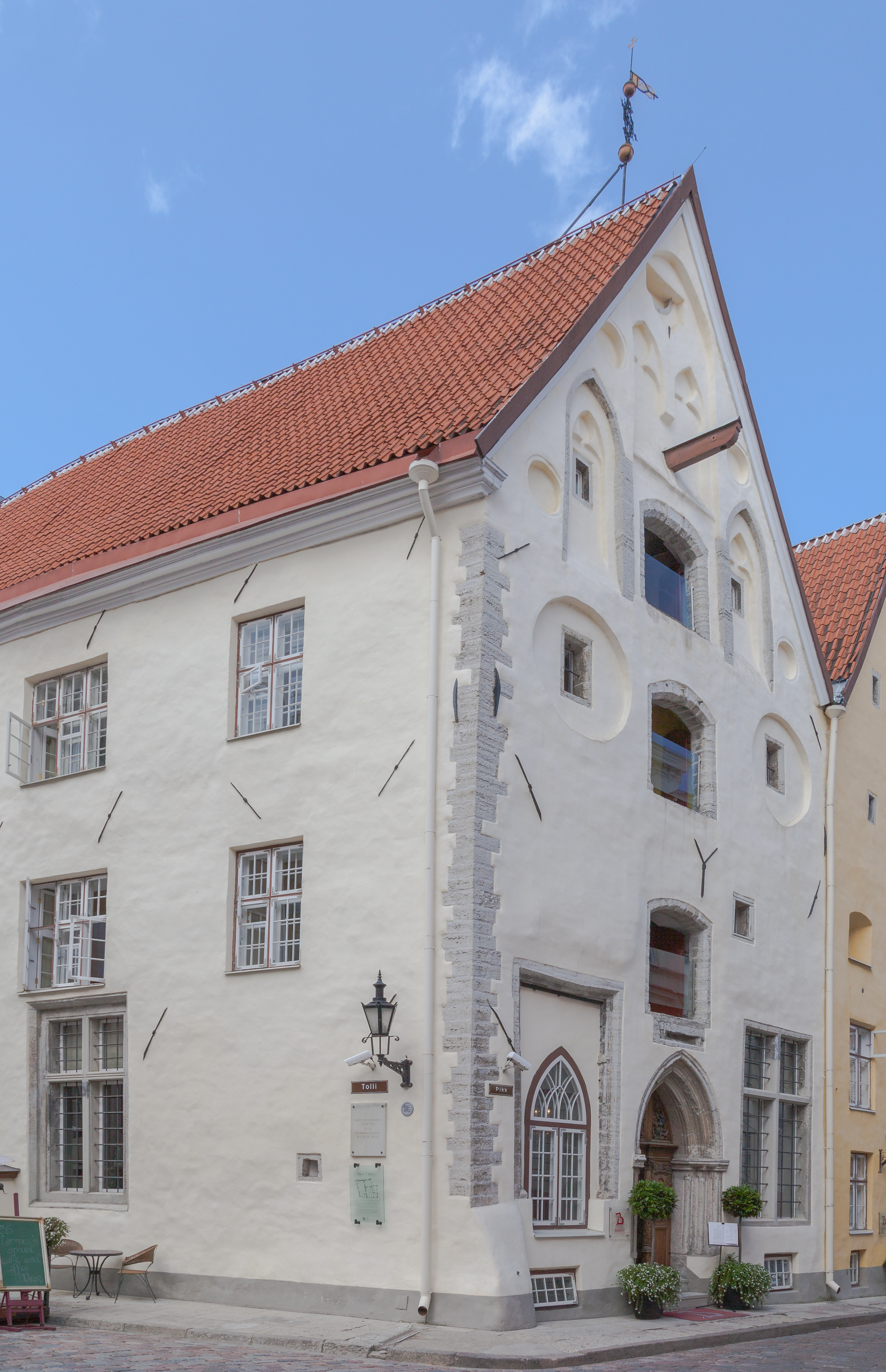 Building at Pikk and Tolli streets, Tallinn, Estonia